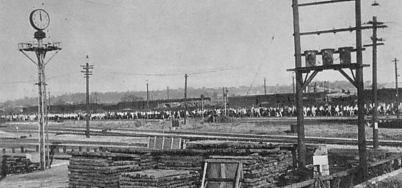 Suita Incident